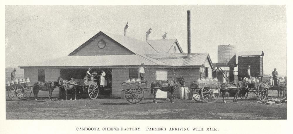 Farmers arriving with milk at the Cambooya Cheese Factory, ca. 1913